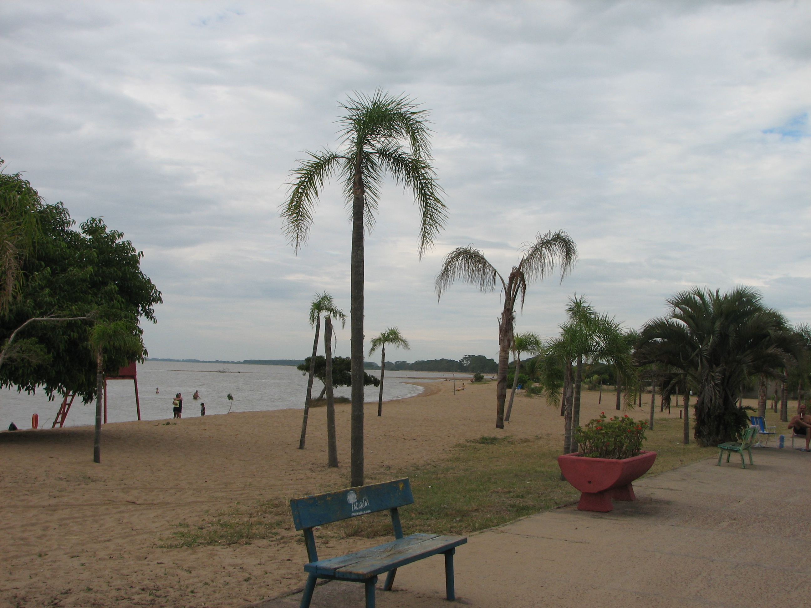 Caramuru beach in Arambaré - Brazil.